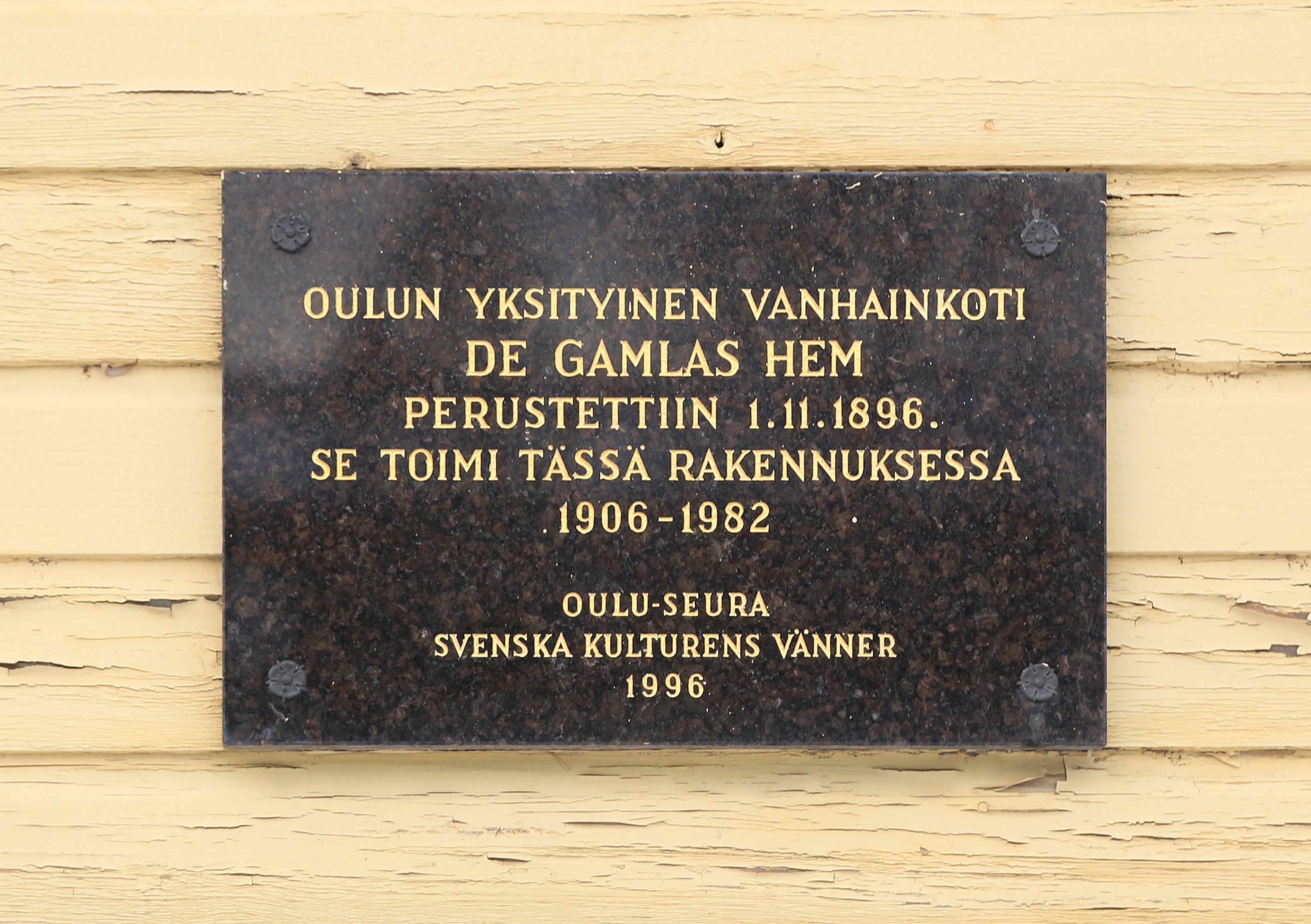 The commemorative plaque for the De Gamlas Hem retirement home in Oulu.